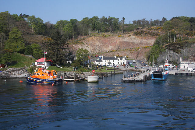 Port Askaig View from the Colonsay ferry as it approaches the terminal.